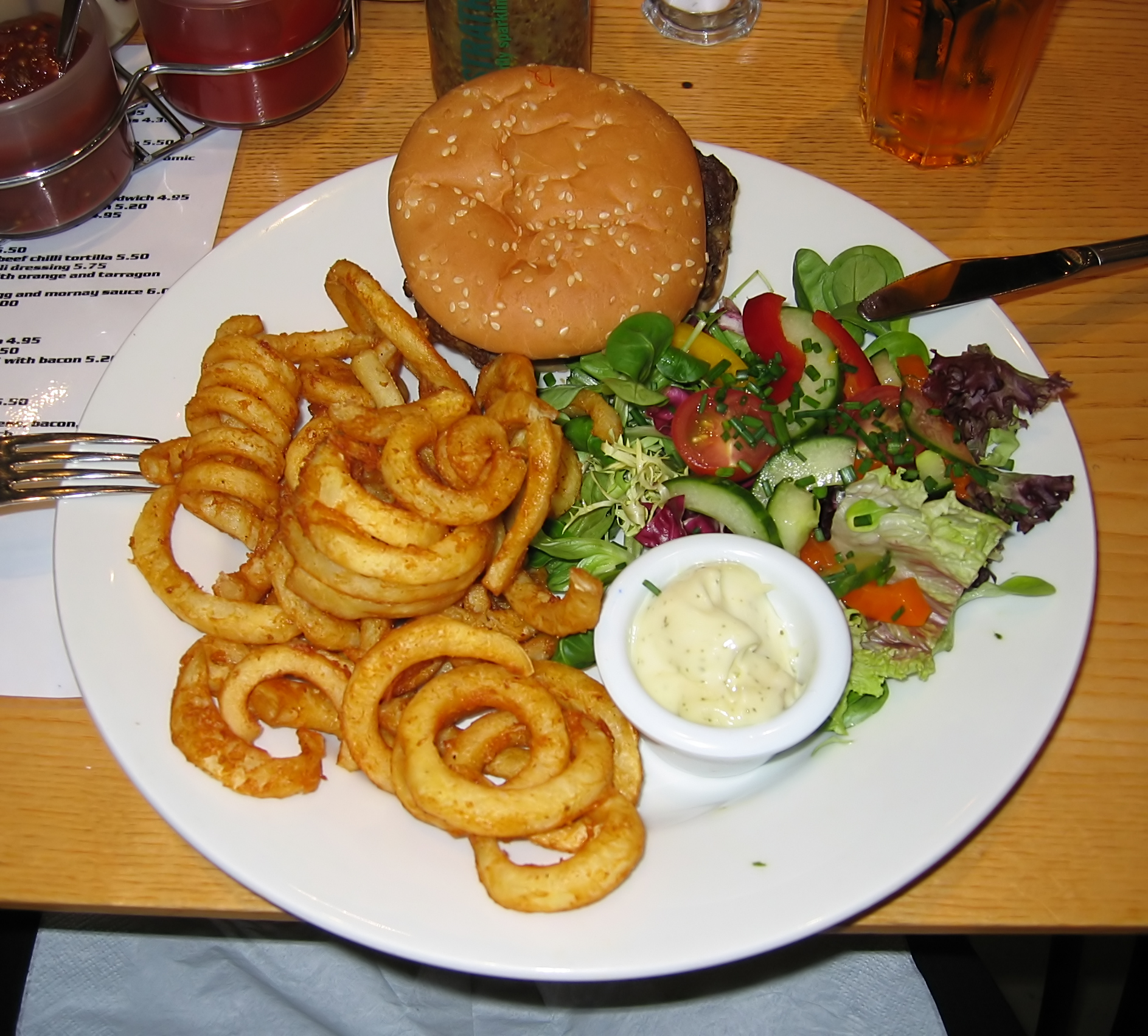 The Bar-91 Burger (with curly fries). If I die at 40 from a heart attack, it'll have been worth it.Lunch!